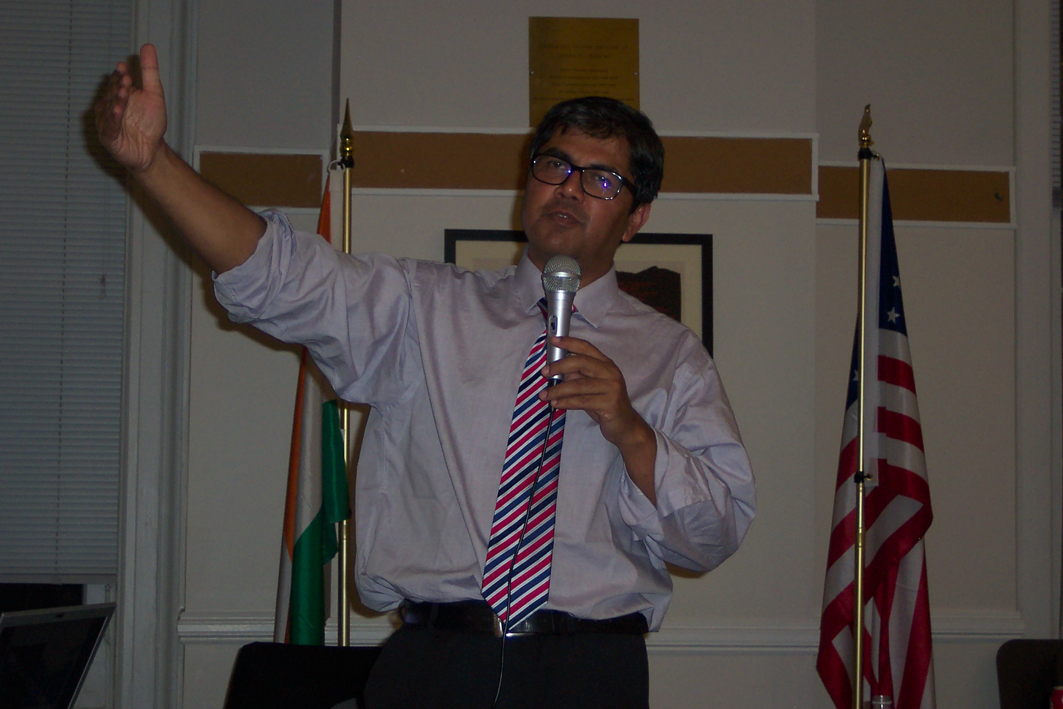 On 26 August 2013, the US-India Policy Institute held a panel discussion about economics in India. Dr. Amir Ullah Khan, Vice Chancellor of Glocal University.